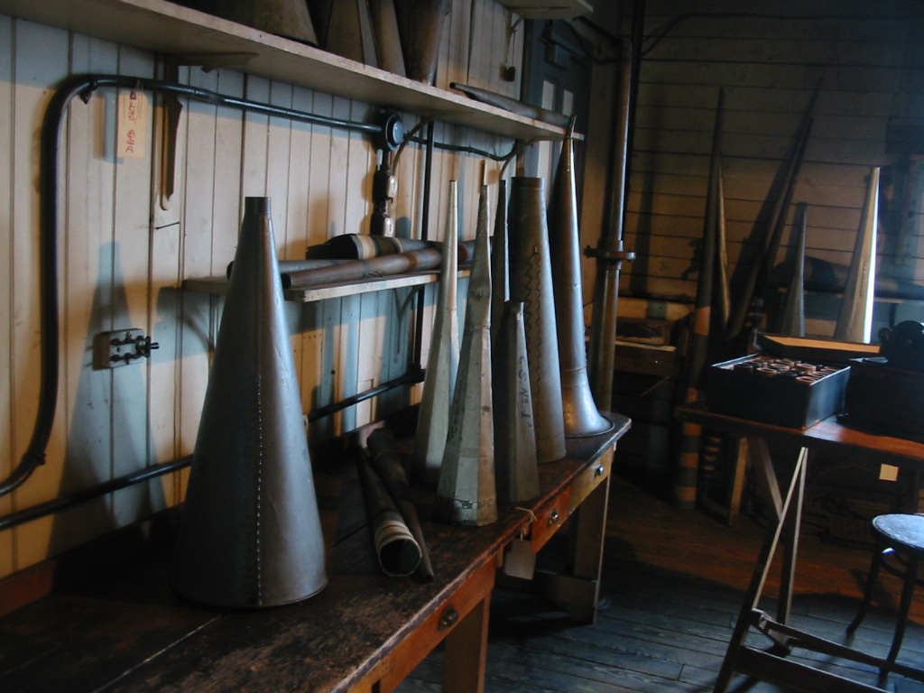 A collection of acoustic horns at Thomas Edison National Historical Park, in a research lab next to the music room.